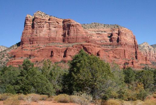 Courthouse Butte, facing northeast — Yavapai County, Arizona. Oct. 2008. Jim Stuby (talk) 01:00, 1 November 2008 (UTC)